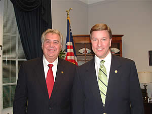 Congressman Mike Rogers visits with State Rep. DuWayne Bridges in his DC office before they went to hear President Bush give his State of the Union address.